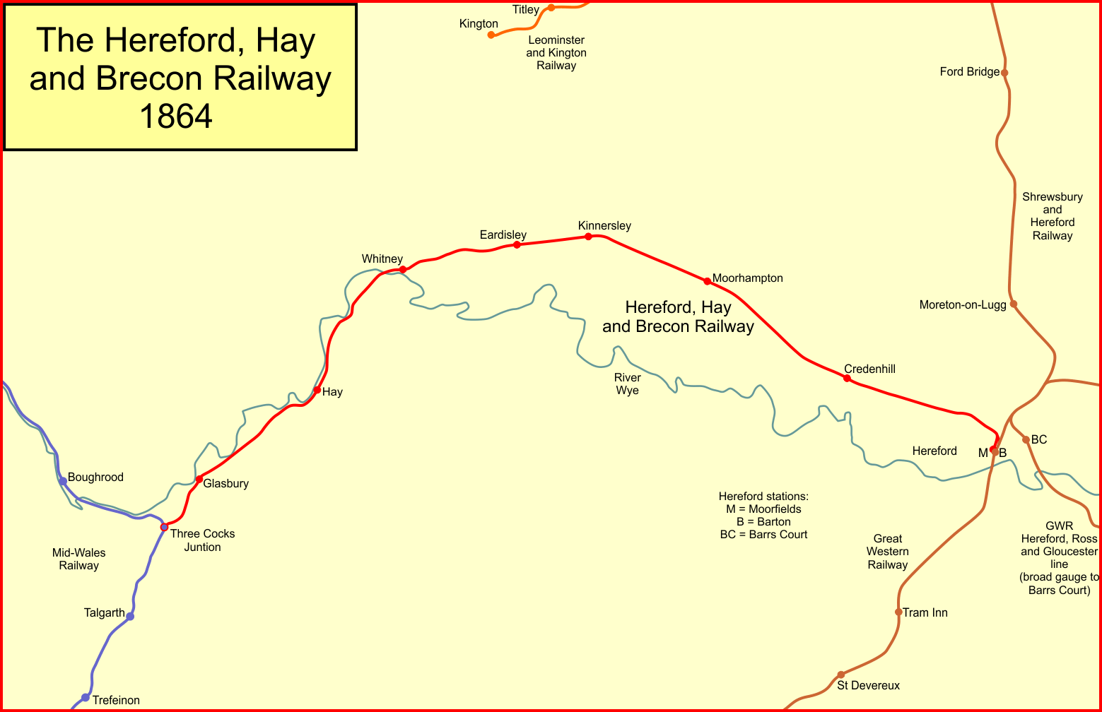 System map of the Hereford, Hay and Brecon Railway, in England and Wales, in 1864